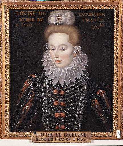 Louise of Lorraine